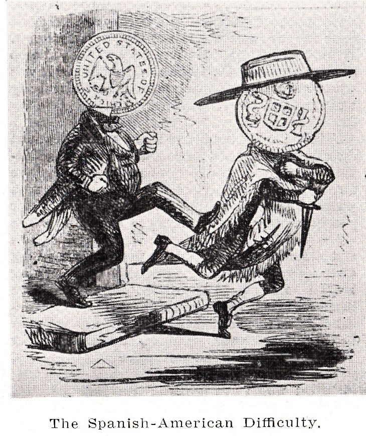 Cartoon from the February 1857 issue of Harper's Magazine (Reproduced in the April 1919 The Numismatist, p. 155). "The Spanish-American difficulty: solved as Spanish colonial coinage were made no longer legal tender in the US.